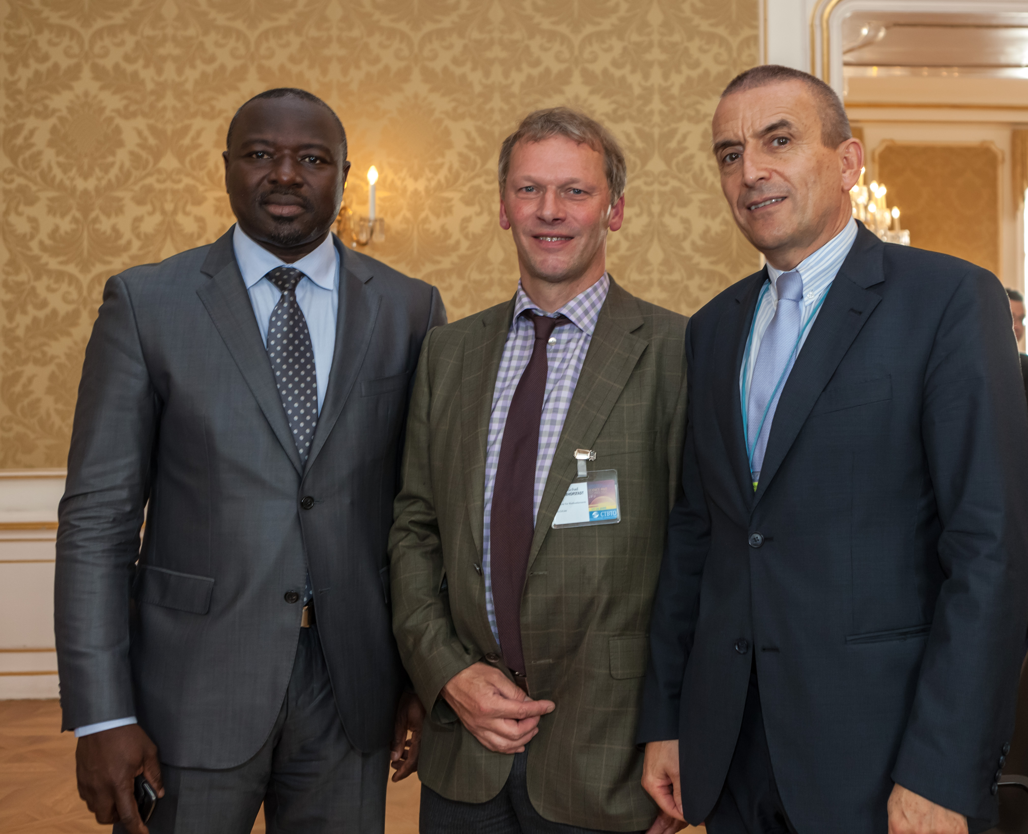 CTBTO Executive Secretary-elect Lassina Zerbo (left), Jean-Michel Vanderhofstadt CEO-General Manager, Institute for Radio Elements (IRE) and the Permanent Representative of Belgium to international organizations in Vienna Frank Recker (right) after signing a Memorandum of Understanding on IRE's co-operation with CTBTO in noble gas mitigation.